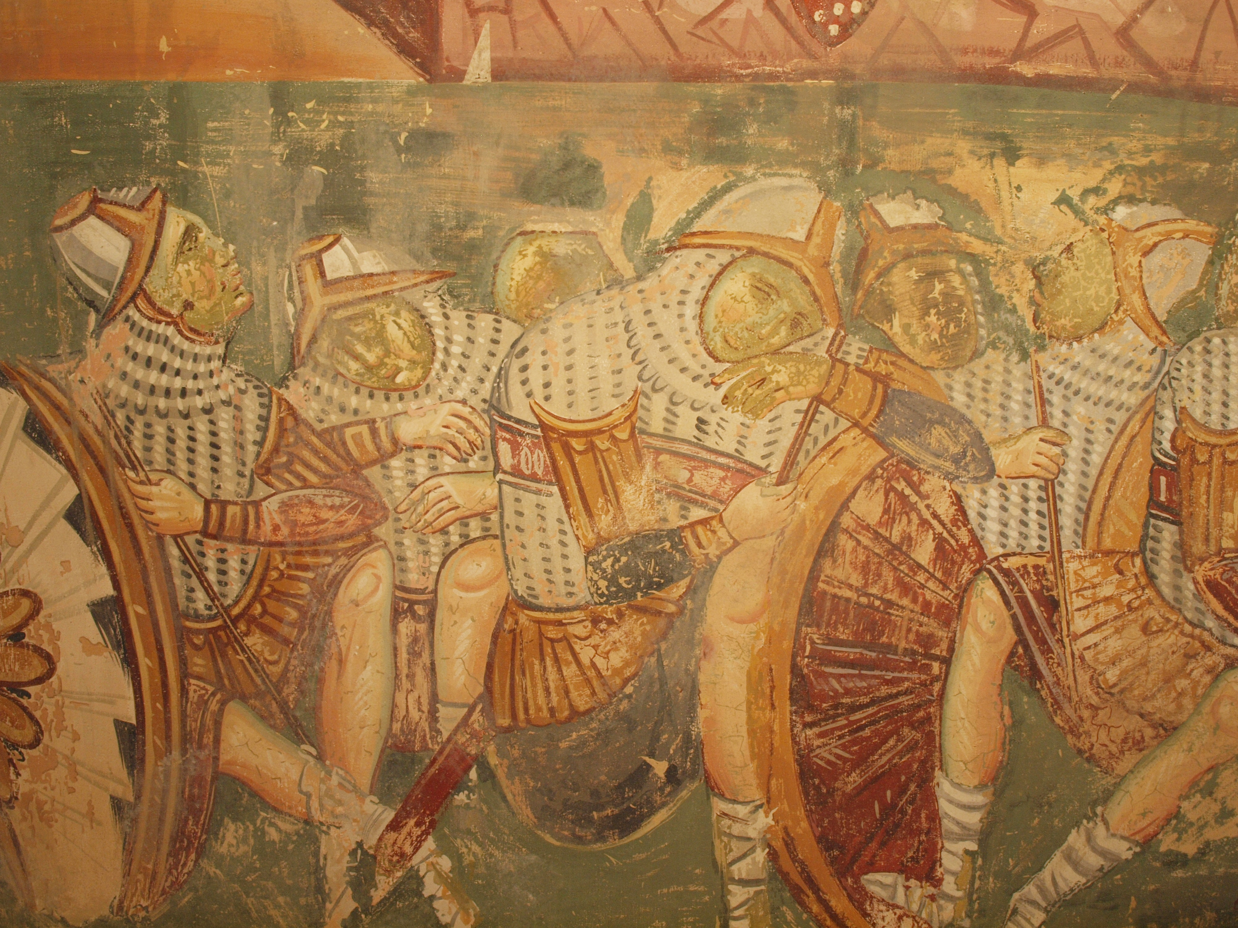 Sleeping soldiers Christ tomb Milesevo monastery